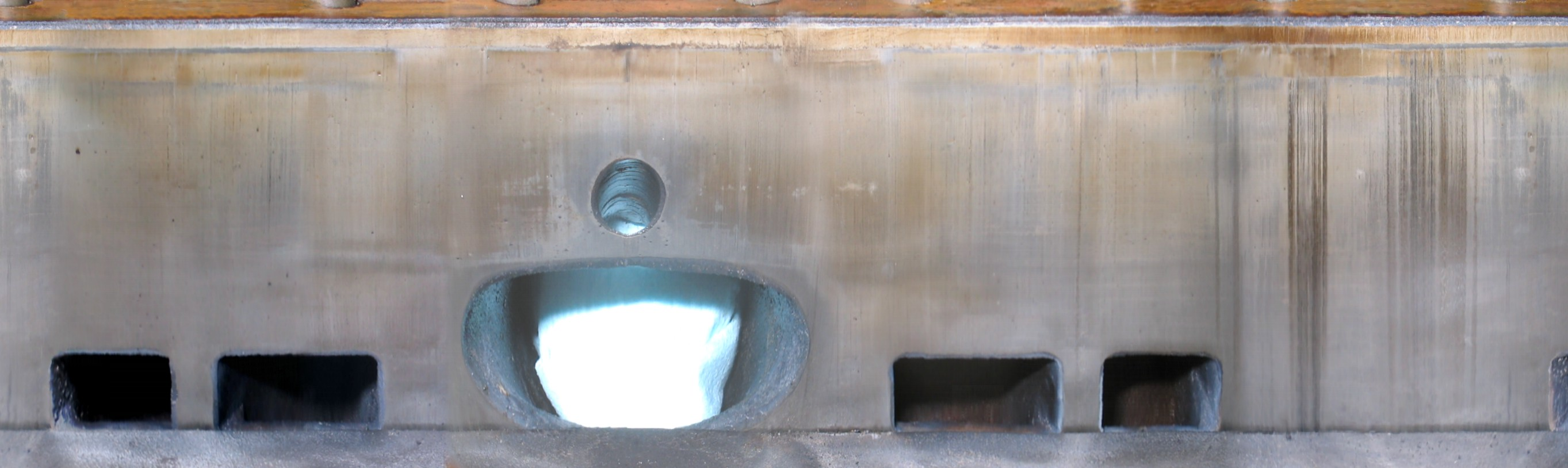 Interior overview of a two-stroke engine to tangential currents, devoid of pouring Coanda equipped with an unusual light booster above the main drain, Cagiva SXT 350, at the top you can see the copper gasket and lower the piston crown. NB. Photos in scale, with the two sides (left and right) that overlap slightly.